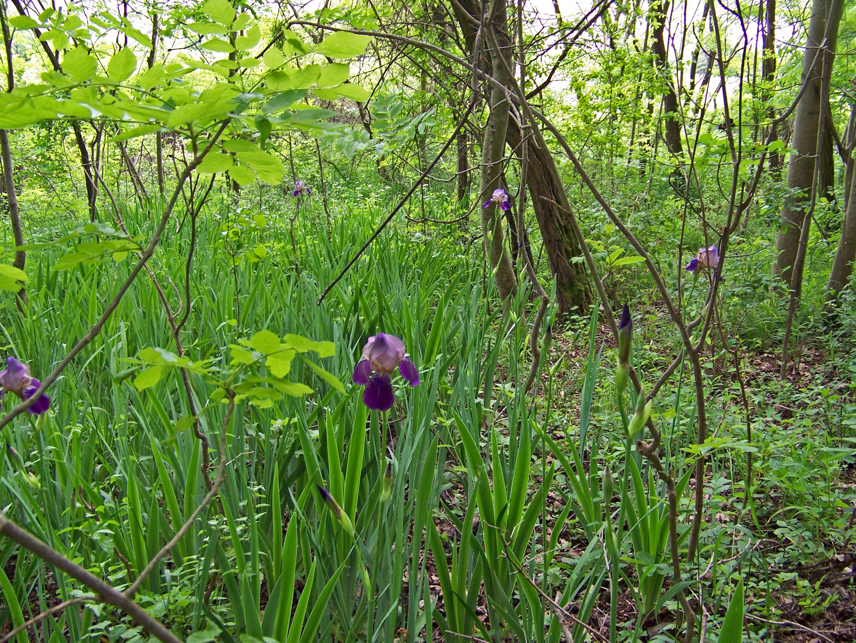 The valley and nature reserve Leutratal (in the environs of Jena), Thuringia, Germany: Bearded (German) Iris (Iris × germanica) growing wild in colonny.